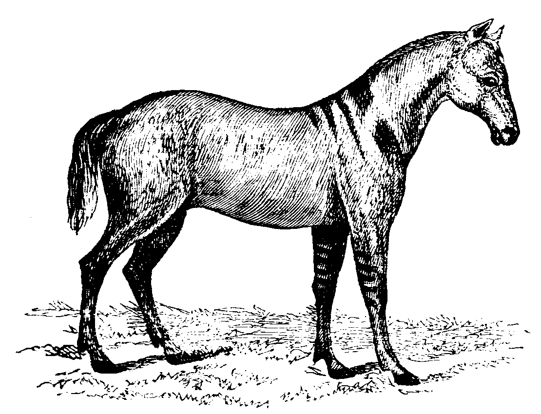 Dun Devonshire Pony, with shoulder, spinal, and leg stripes